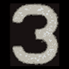 Route number signage that appeared on the front of BMT D-type (Triplex) cars from 1927 to 1964 on the New York Subway. From c1965 photostat. This number was used on trains of the West End Line (3).